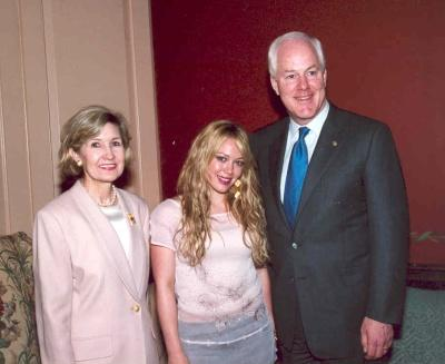 Sen. Cornyn and Sen. Hutchison met with recording artist and Recording Industry Association of America representative (RIAA) Hilary Duff at the Capitol to discuss copyright issues. Sen. Cornyn co-sponsored the Art Act of 2003 to enable copyright holders and law enforcement officials to combat piracy of entertainment industry products. (7/22/2004)